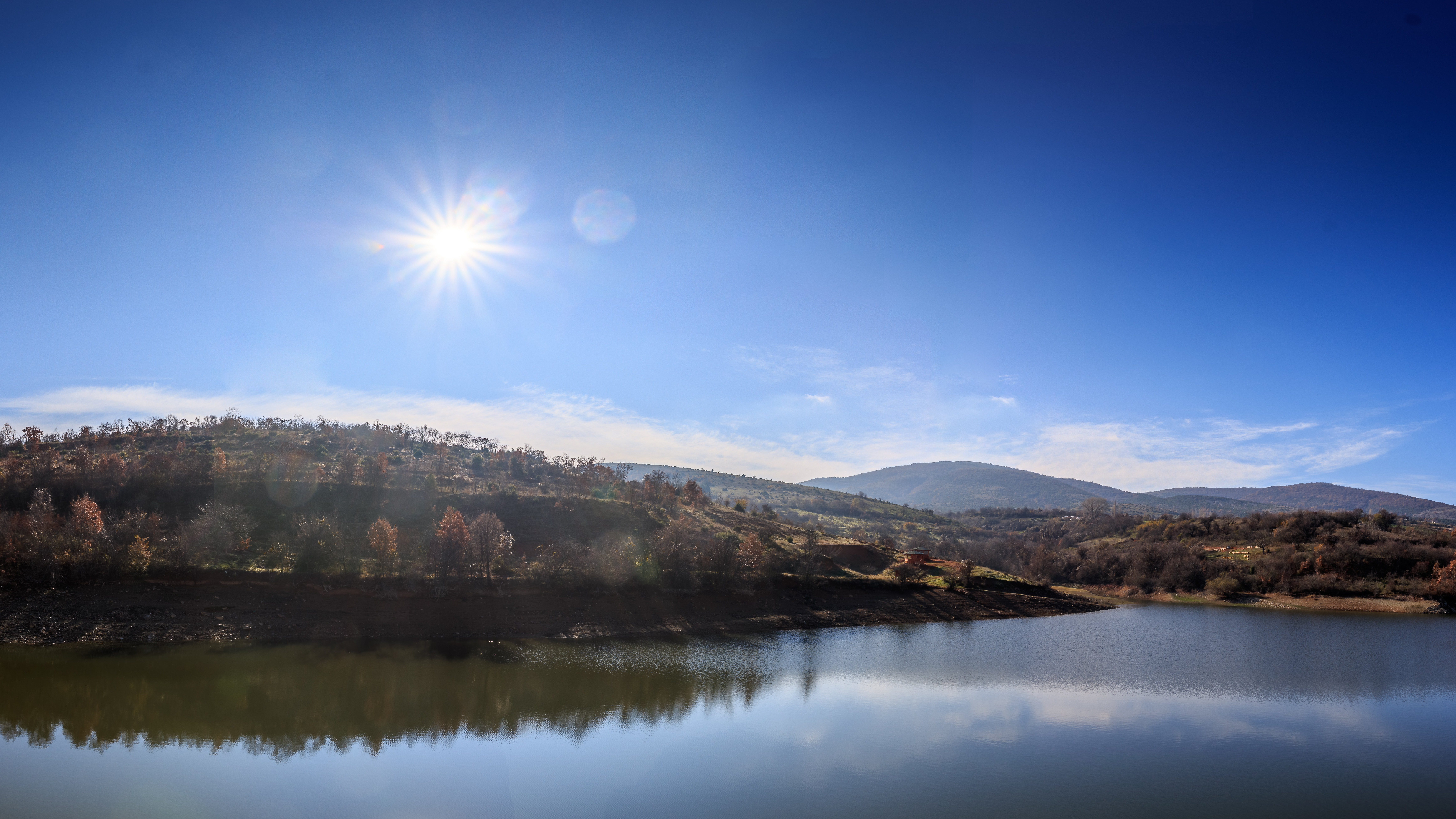 View of Podles Lake.